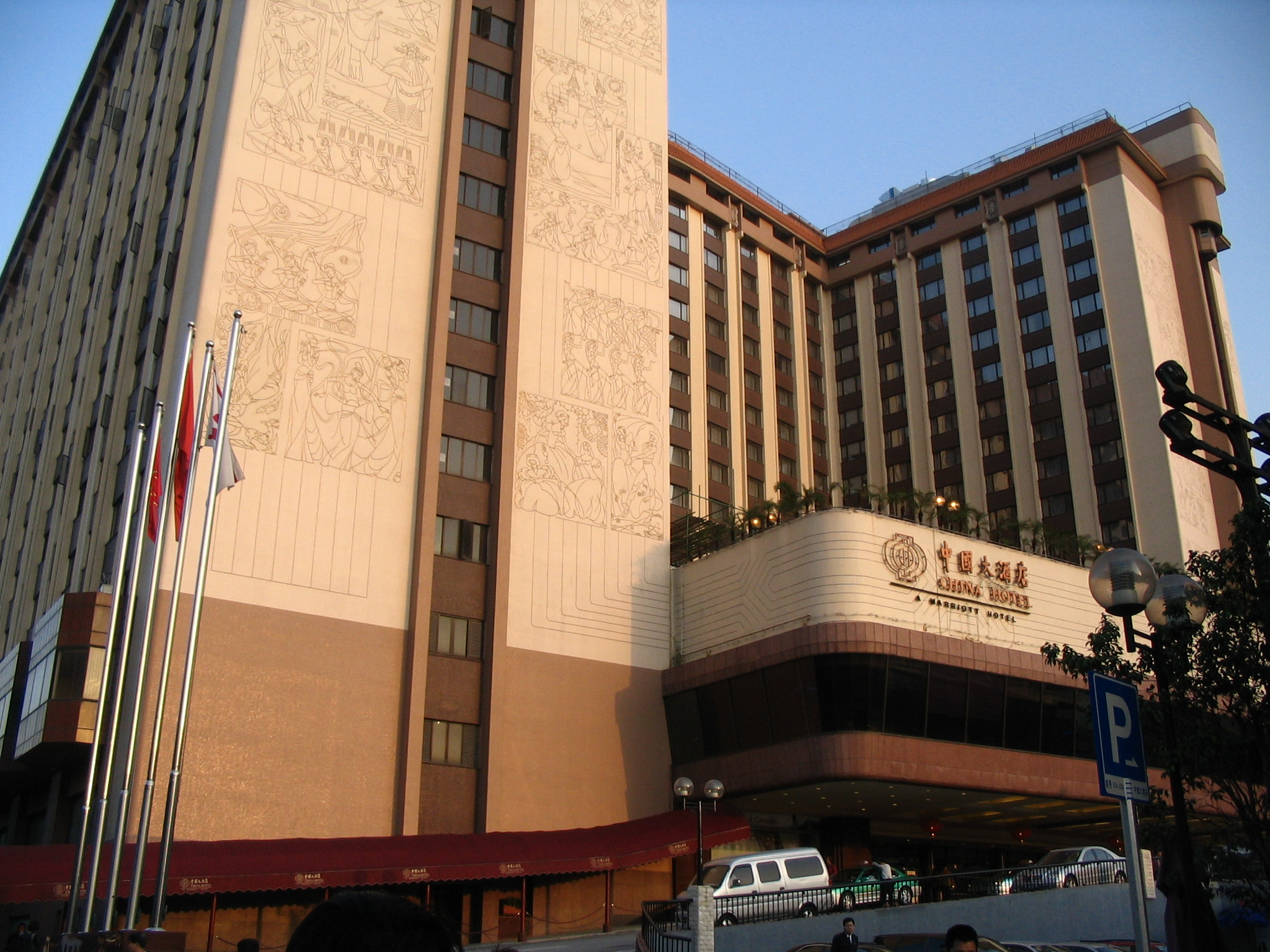 Photo of China Hotel